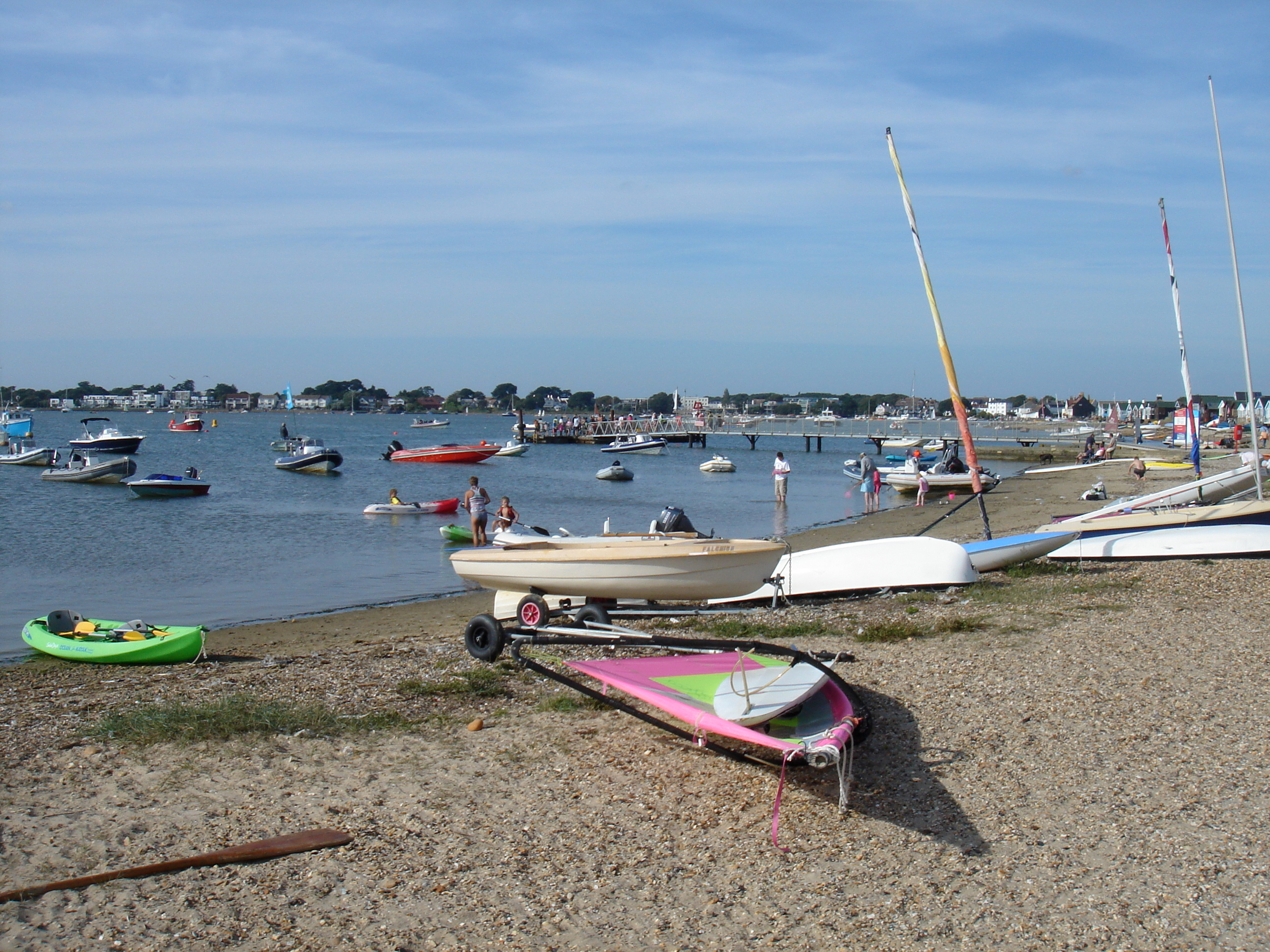 another buzzy day in the bay